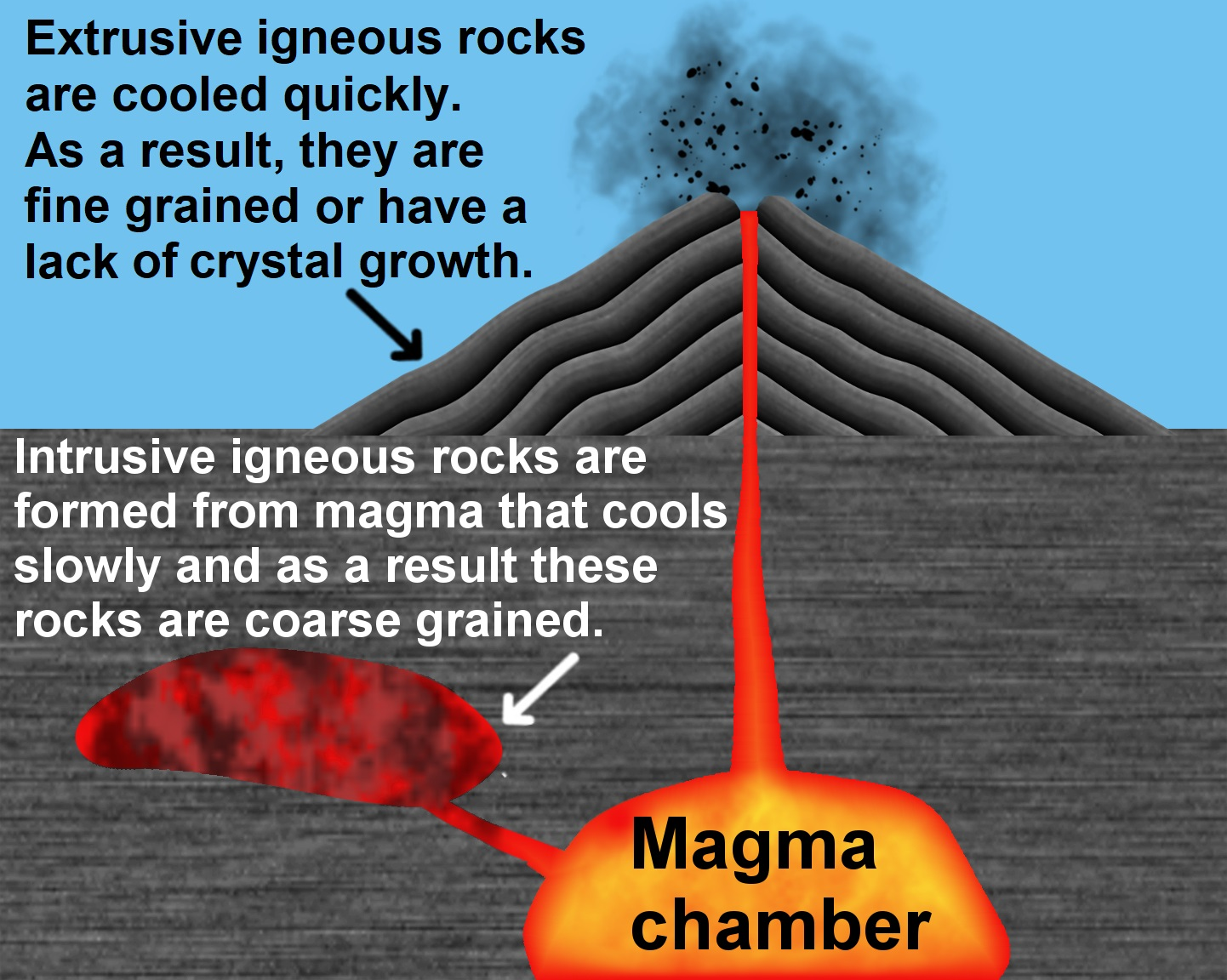 Igneous rock illustration with English text and labels of a magma chamber as well as explanation of the meanings of the extrusive and intrusive types. Has better phrasing than File:Igneous rock eng text.jpg, which it is based on.